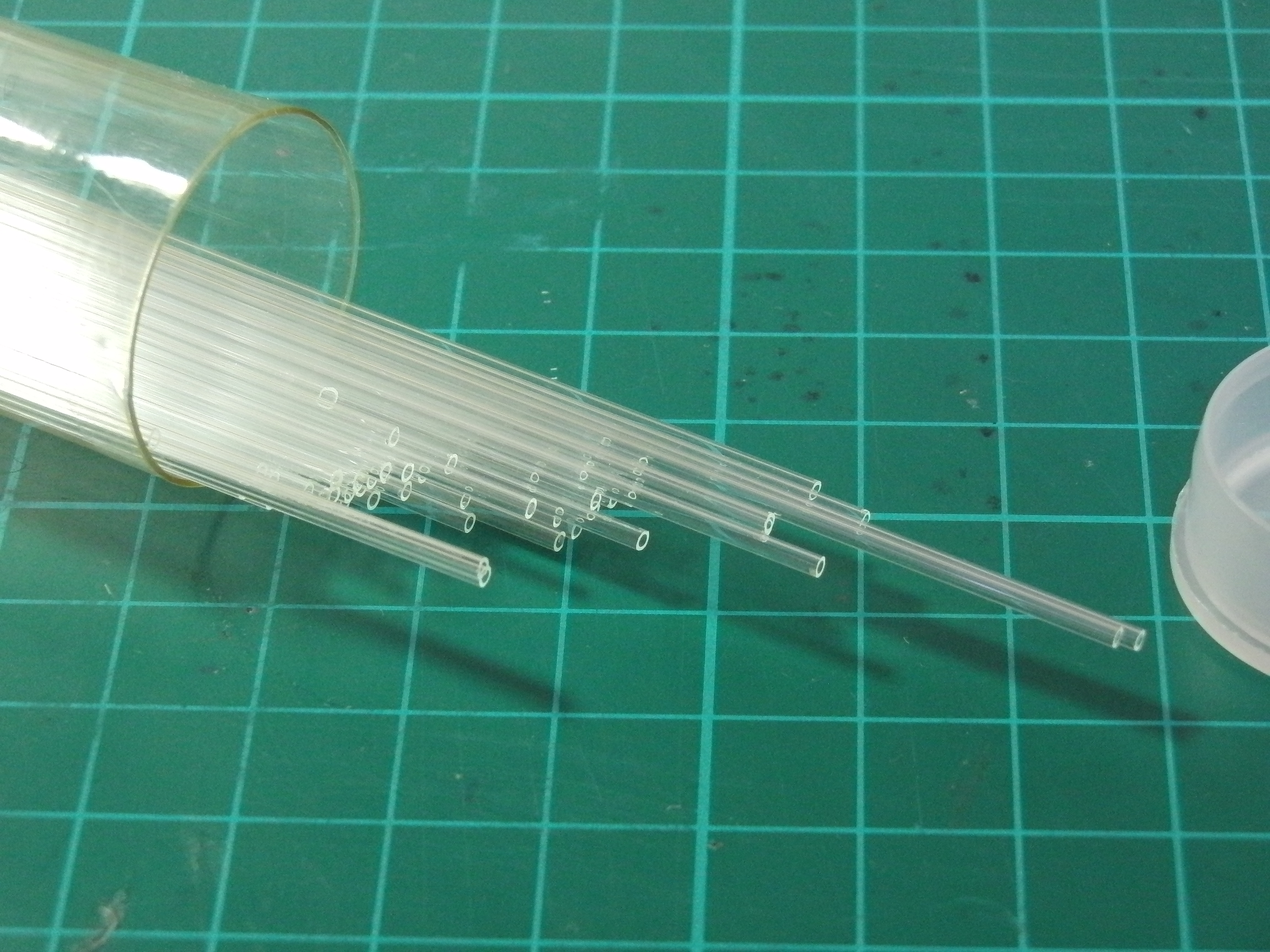 Capillary